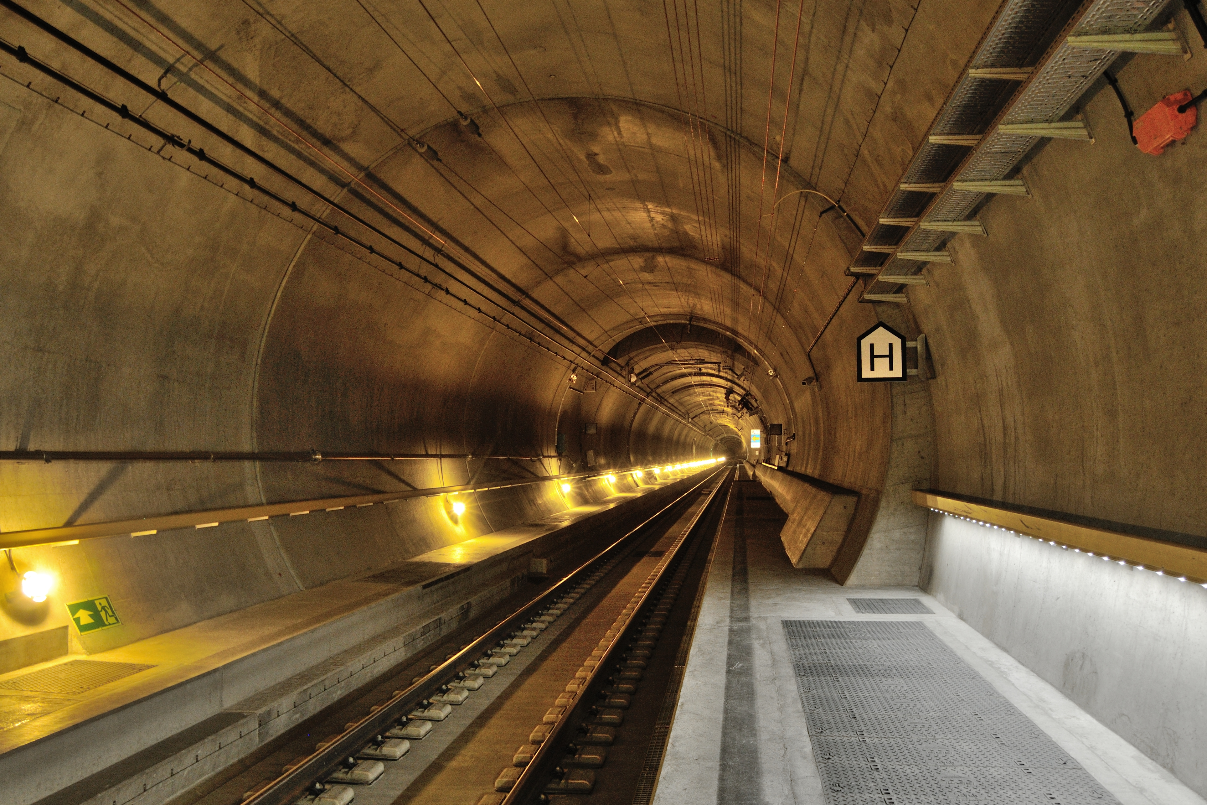 Gotthard Base Tunnel at Sedrun multifunction station (east tube), looking north. The vertical distance to the ground is about 1100 metres from this point.